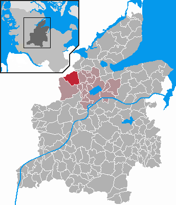 Locator maps of municipalities in Schleswig-Holstein - District Rendsburg-Eckernförde